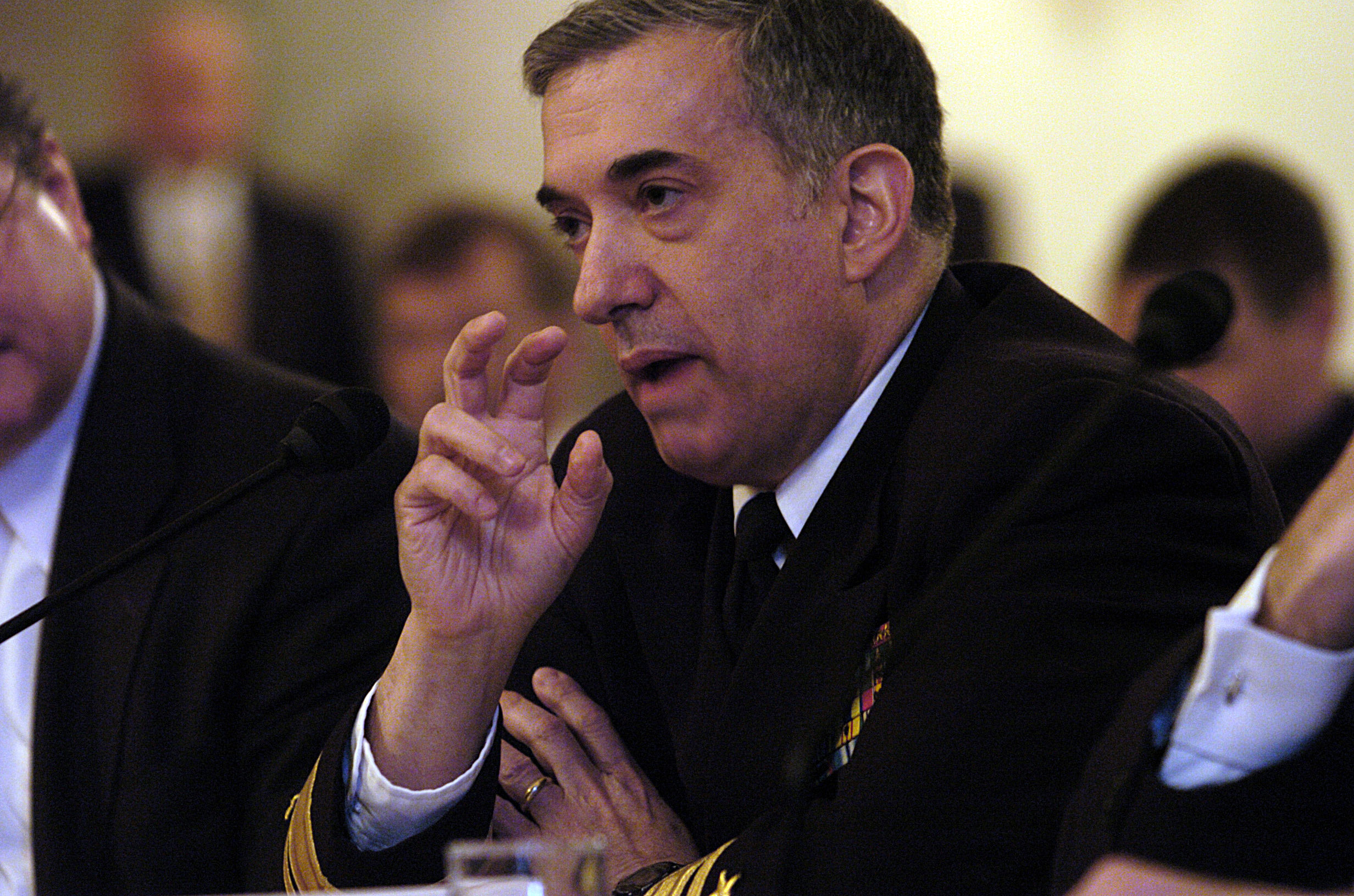 Washington, D.C. (Mar. 9, 2005) – Chief of Naval Research, Rear Adm. Jay M. Cohen, presents testimony on the Department of Defense Science and Technology Budget and Strategy. The U.S. Senate Committee on Armed Services' subcommittee on Emerging Threats and Capabilities, met in the Caucus Room of the Russell Senate Office Building to receive testimony. U.S. Navy photo by John F. Williams (RELEASED)